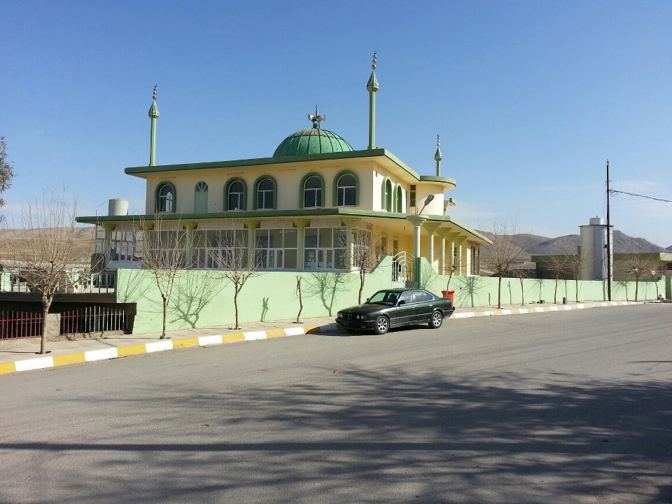 mosuqe